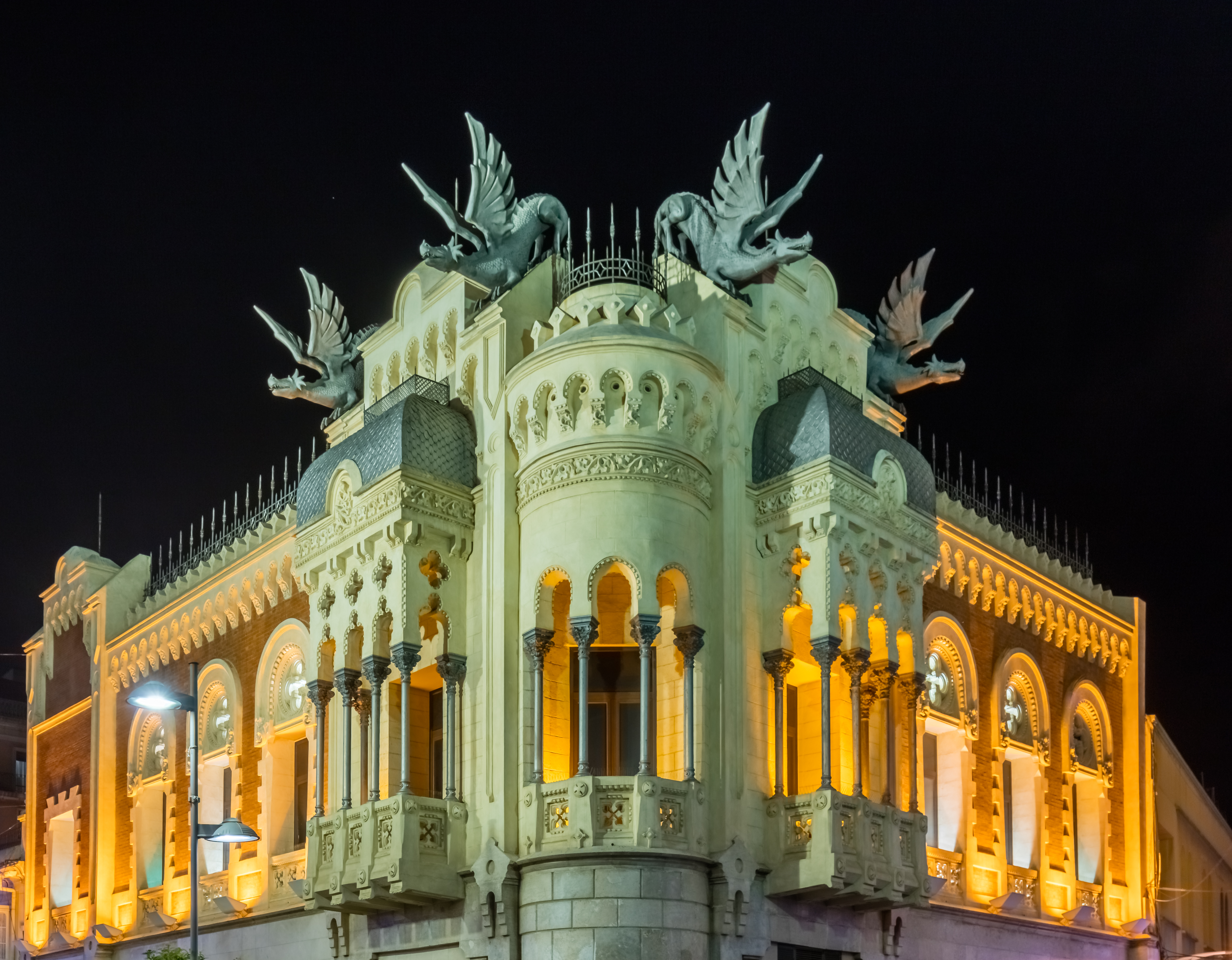 Casa de los Dragones ("House of Dragons"), Ceuta, Spain.